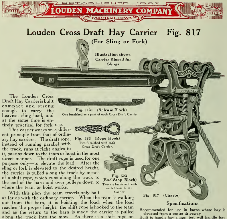 Image from 1915 Louden Machinery Company catalog